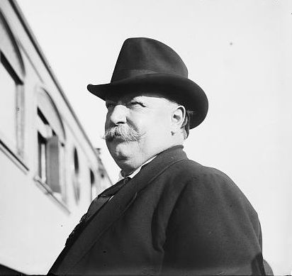 William Howard Taft, President of the United States